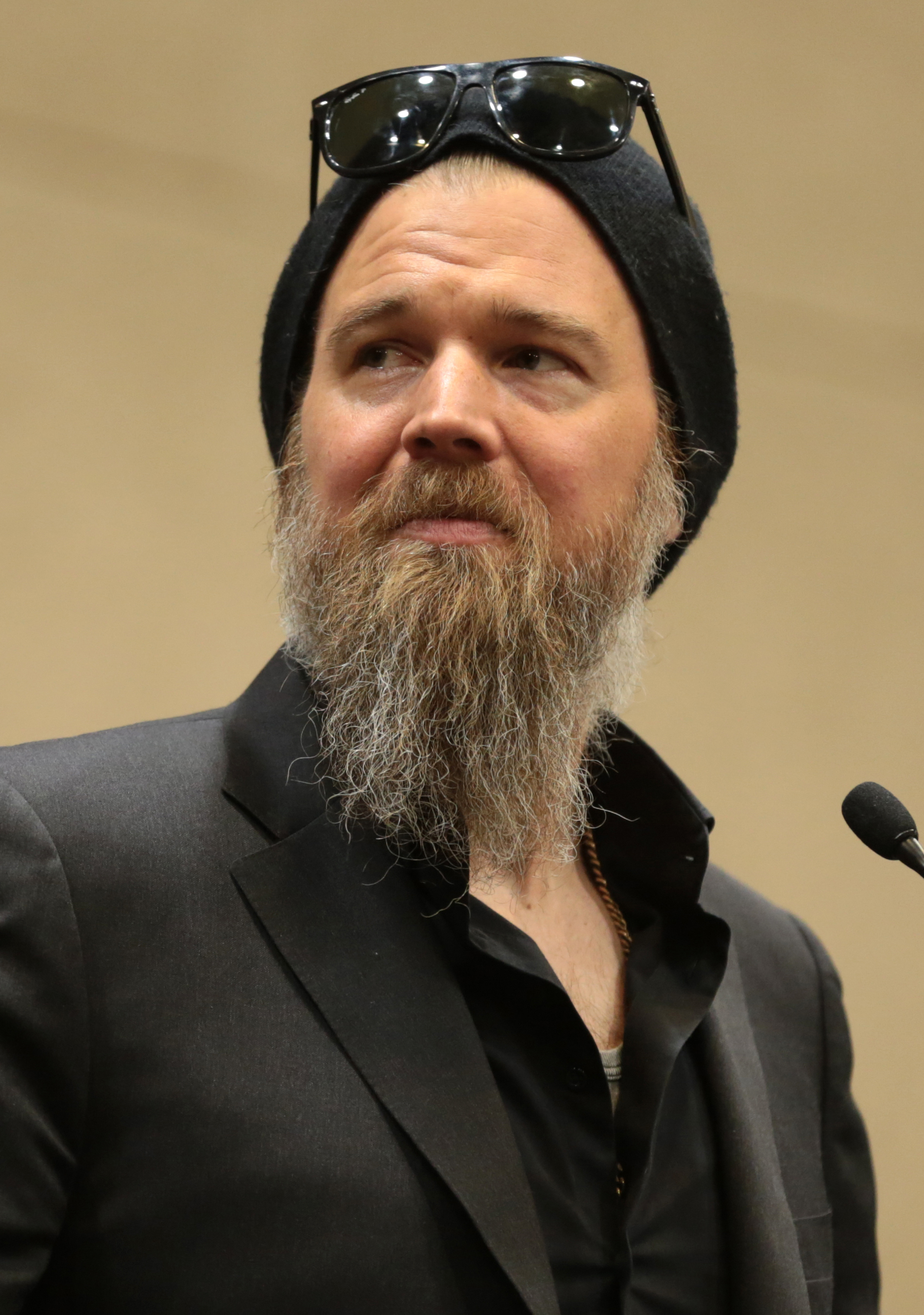 Ryan Hurst speaking at the 2017 Phoenix Comicon in Phoenix, Arizona.